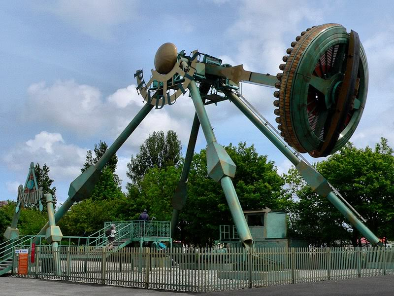 Photograph of "Pendulus", a HUSS Frisbee ride located at Pleasure Island Family Theme Park in Cleethorpes, United Kingdom. This was the first ride of this type in the UK.